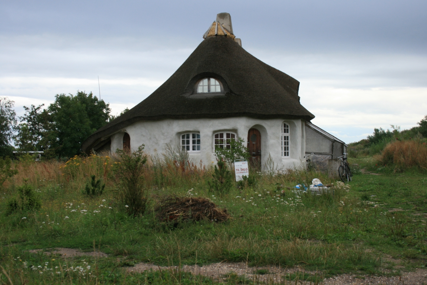 The village society of "Dyssekilde" at Torup, northern Sealand, Denmark